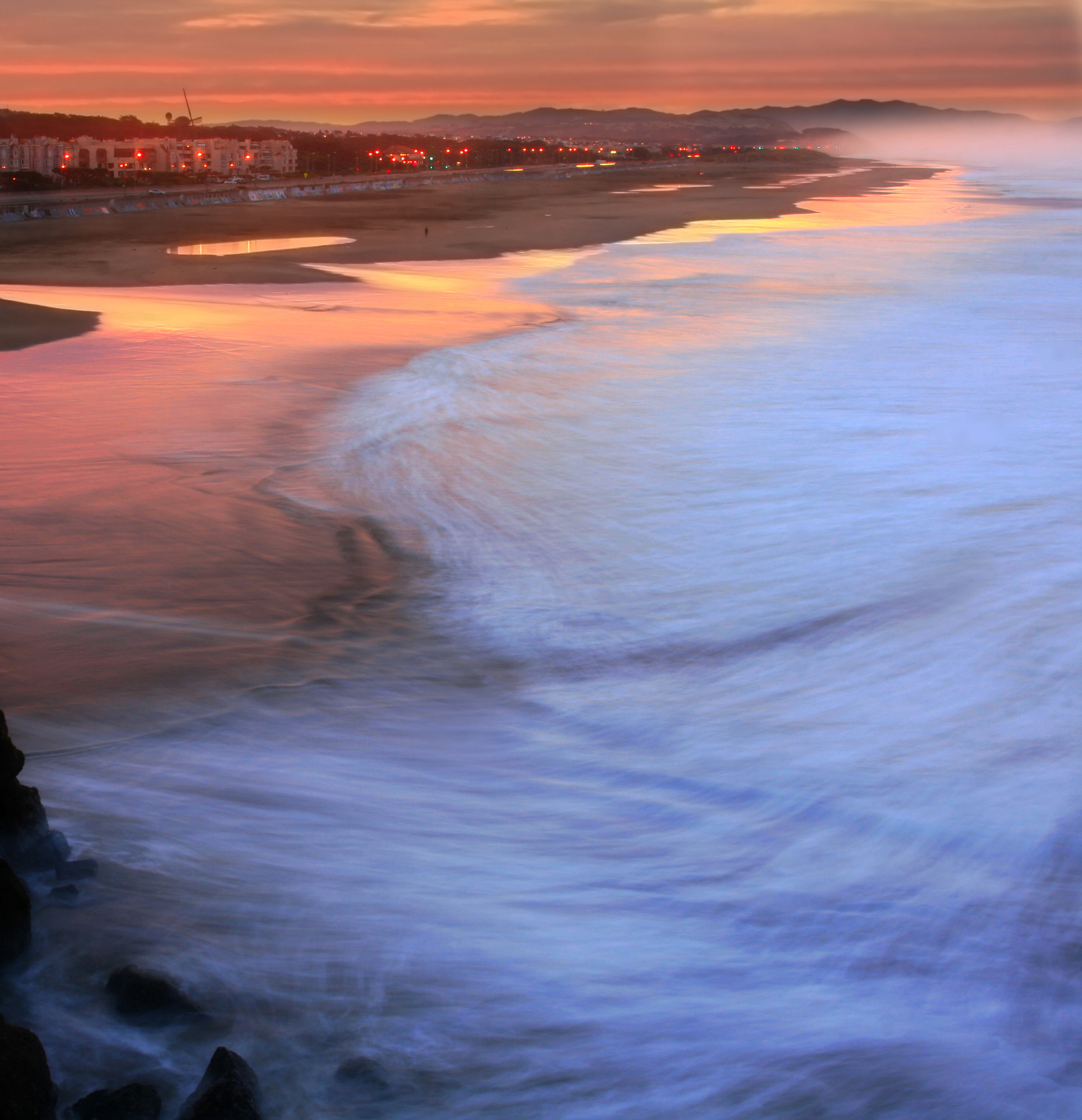 Ocean Beach in San Francisco at sunrise